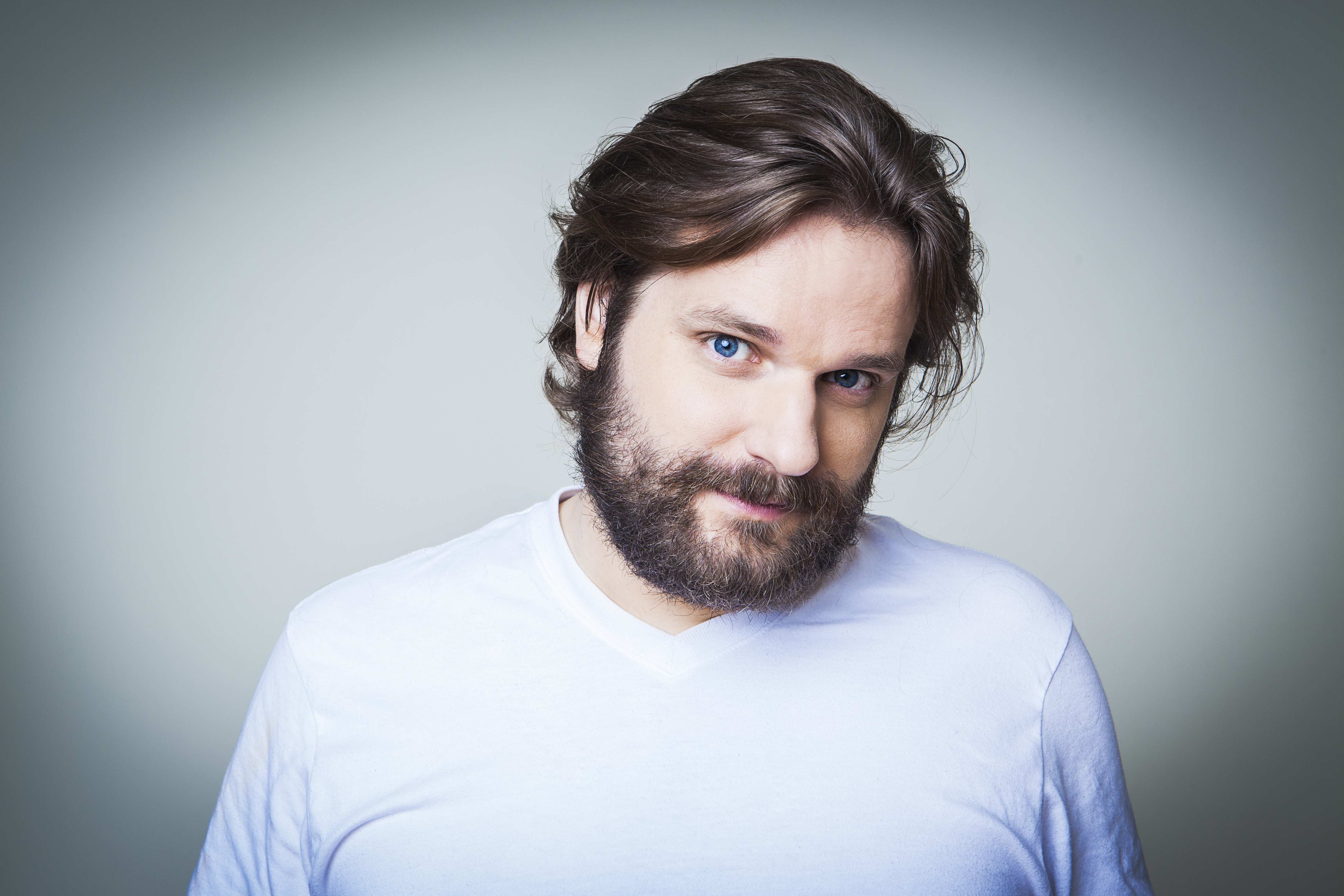 Gronkh